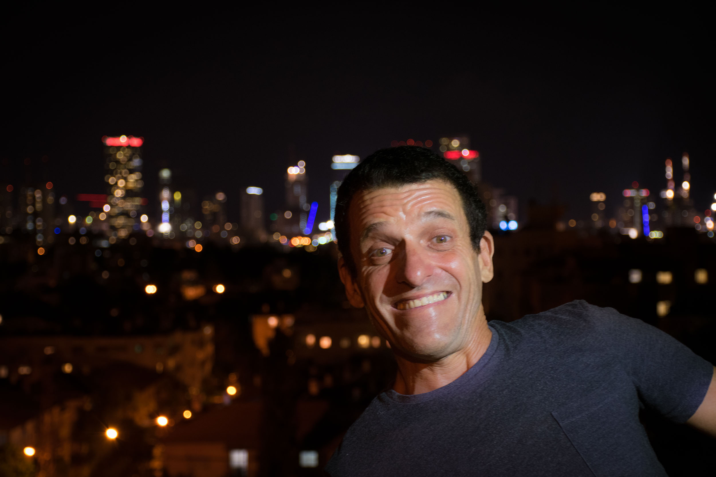 Moshe Frester